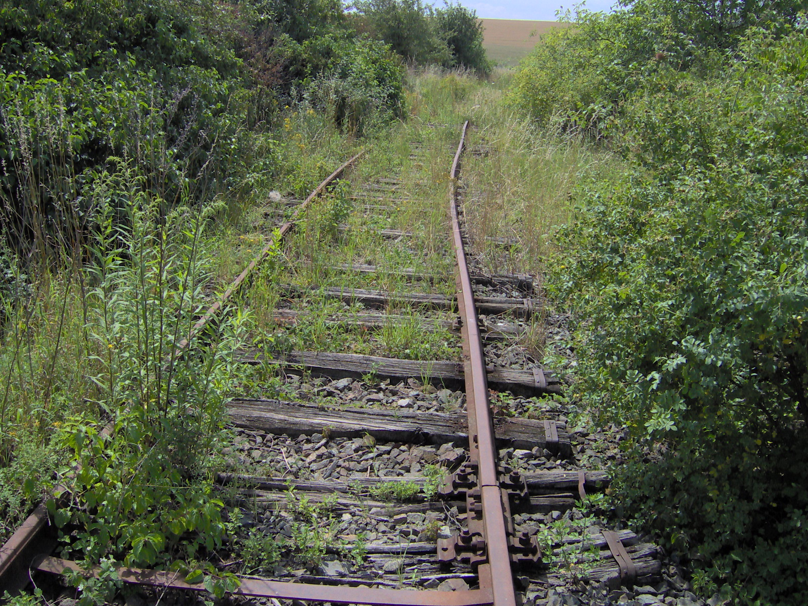 Former tram track Černovice - Líšeň in Brno